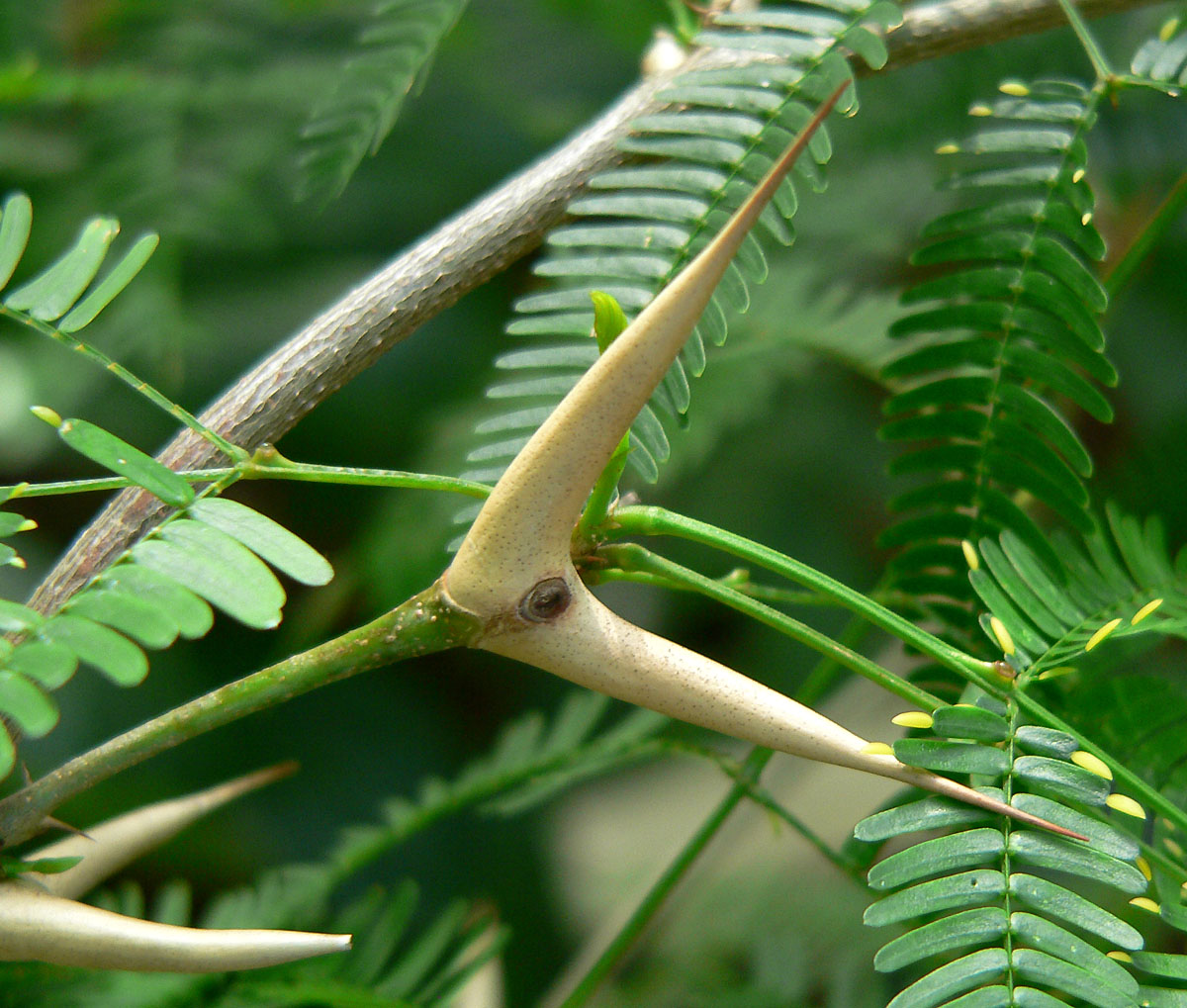 Acacia cornigera at the University of California Botanical Garden, Berkeley, California